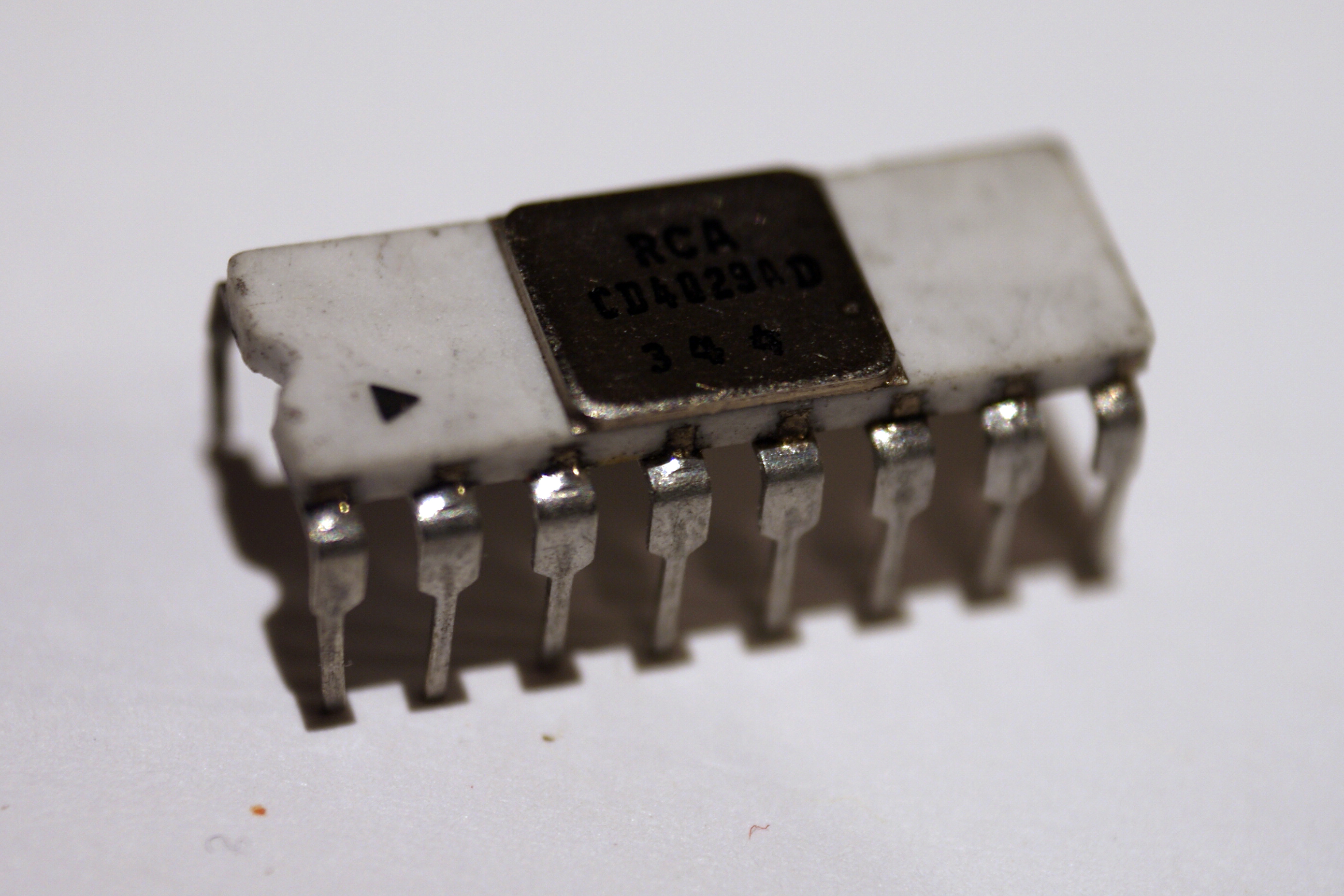 A really old 4029 CMOS IC